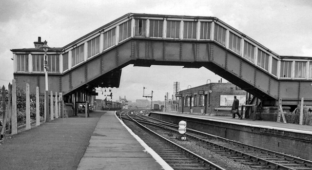 Broadfield Station. View eastward, towards Rochdale; ex-Lancashire & Yorkshire Bolton - Bury - Rochdale line. Station and line closed 5/1/70.